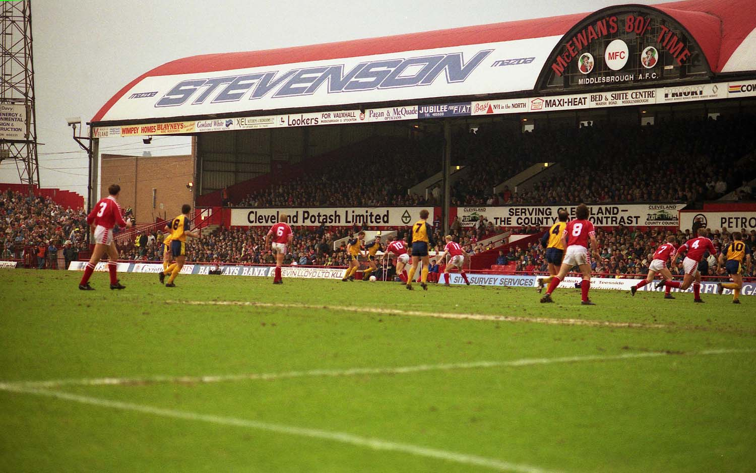 Ayresome Park in 1991, near to Acklam, Middlesbrough, Great Britain.